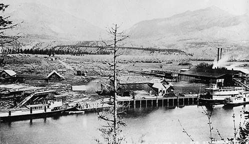 Steamboat landing at Golden, BC, 1890s. Three steamers are shown, probably the largest vessel is Duchess and the second largest may be Hyak.